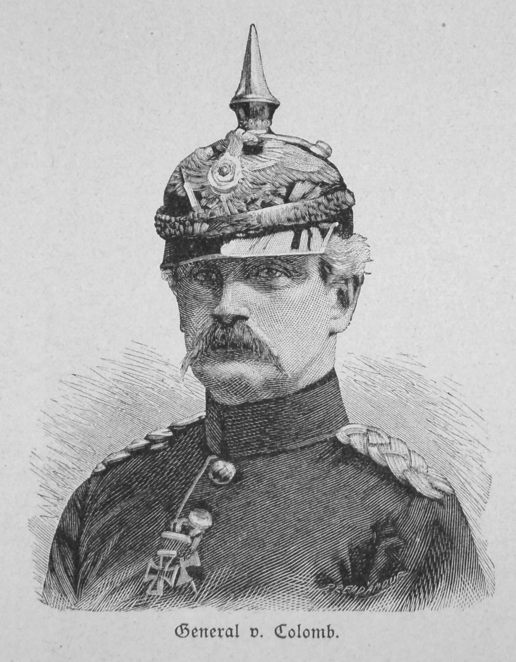 general von Colomb